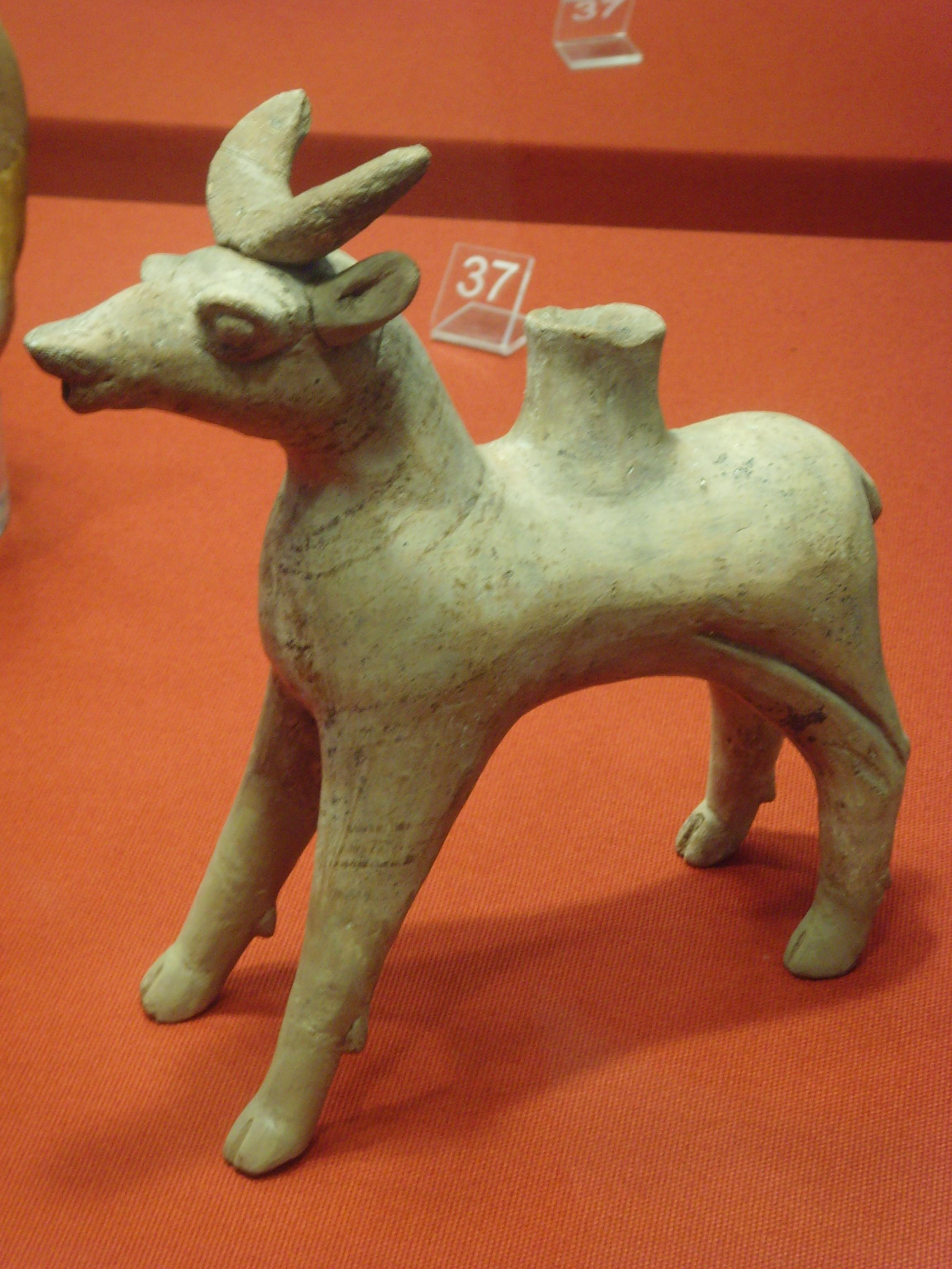 Hittite Rhyton - Baked clay - Kültepe (Kaneš) - Hittite period (19th century B.C.) - From the collection of The Museum of Anatolian Civilizations - photographed at The Turkish and Islamic Arts Museum during a temporary exhibition